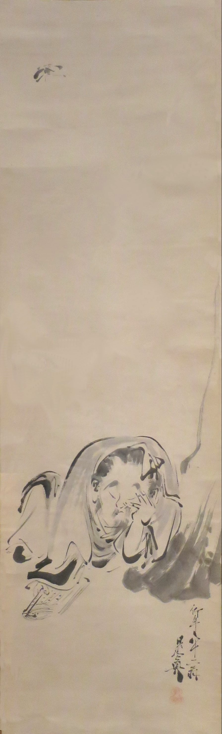 Zhuangzi Dreaming of a Butterfly by Shibata Zeshin, 1888, ink on paper, Honolulu Museum of Art, accession 13879.1